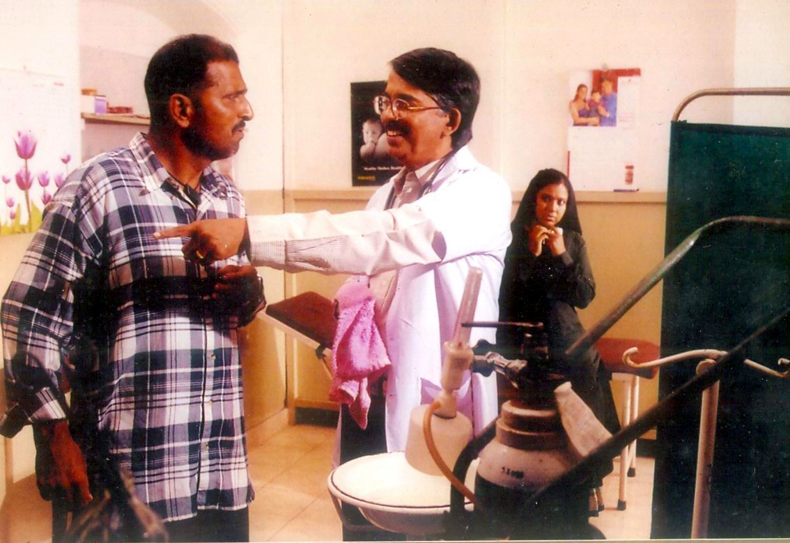 N Damodar Shetty 8